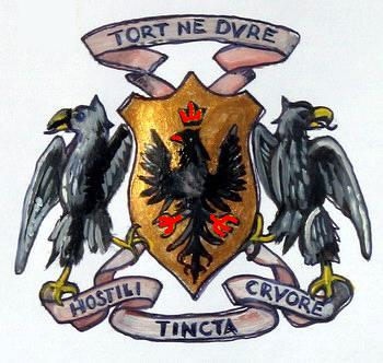 Coat of arms of the Alfieri family Tort Ne Dure (the offense will not last) and Hostili tincta cruore (Blood stains from the hostile)